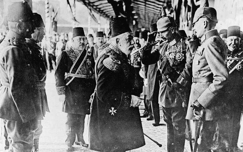 Sultan Mehmed V of Turkey greeting Kaiser Wilhelm II on his arrival in Istanbul. On Sultan'sleft is Hakki Pasha, the Turkish Ambassador in Berlin.